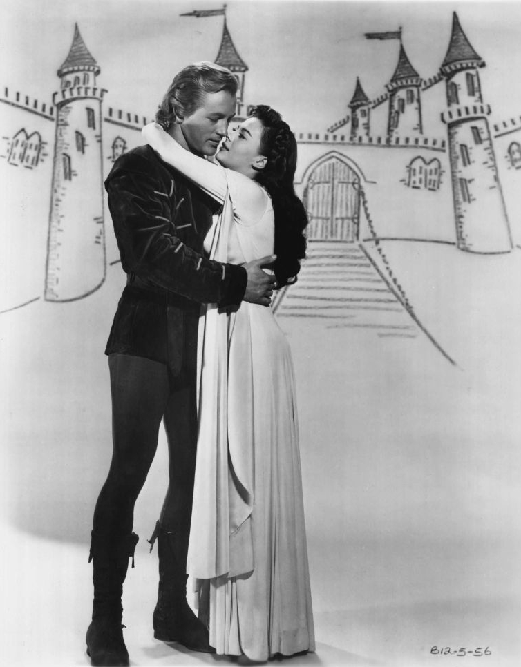 Publicity photo of Natalie Wood and Jacques Sernas, made for promotion of "The Deadly Riddle", an episode of "Warner Bros. Presents" on ABC Television.